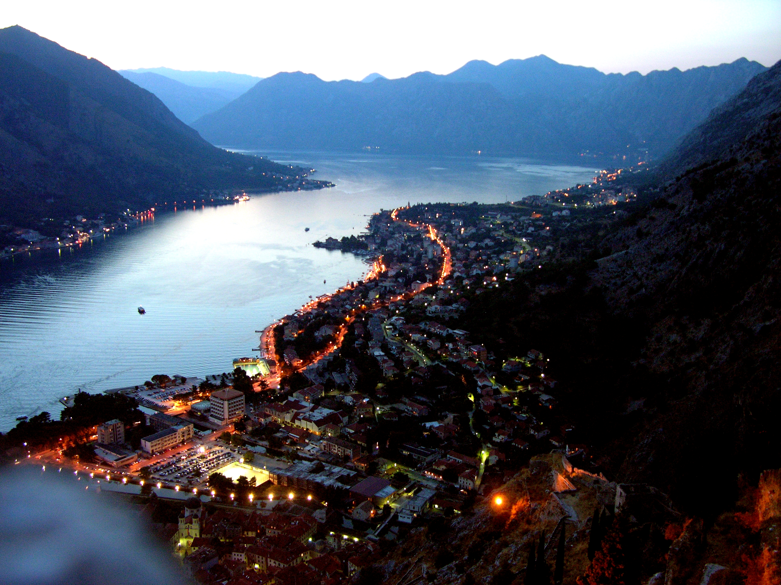 Bay of Kotor in evening.